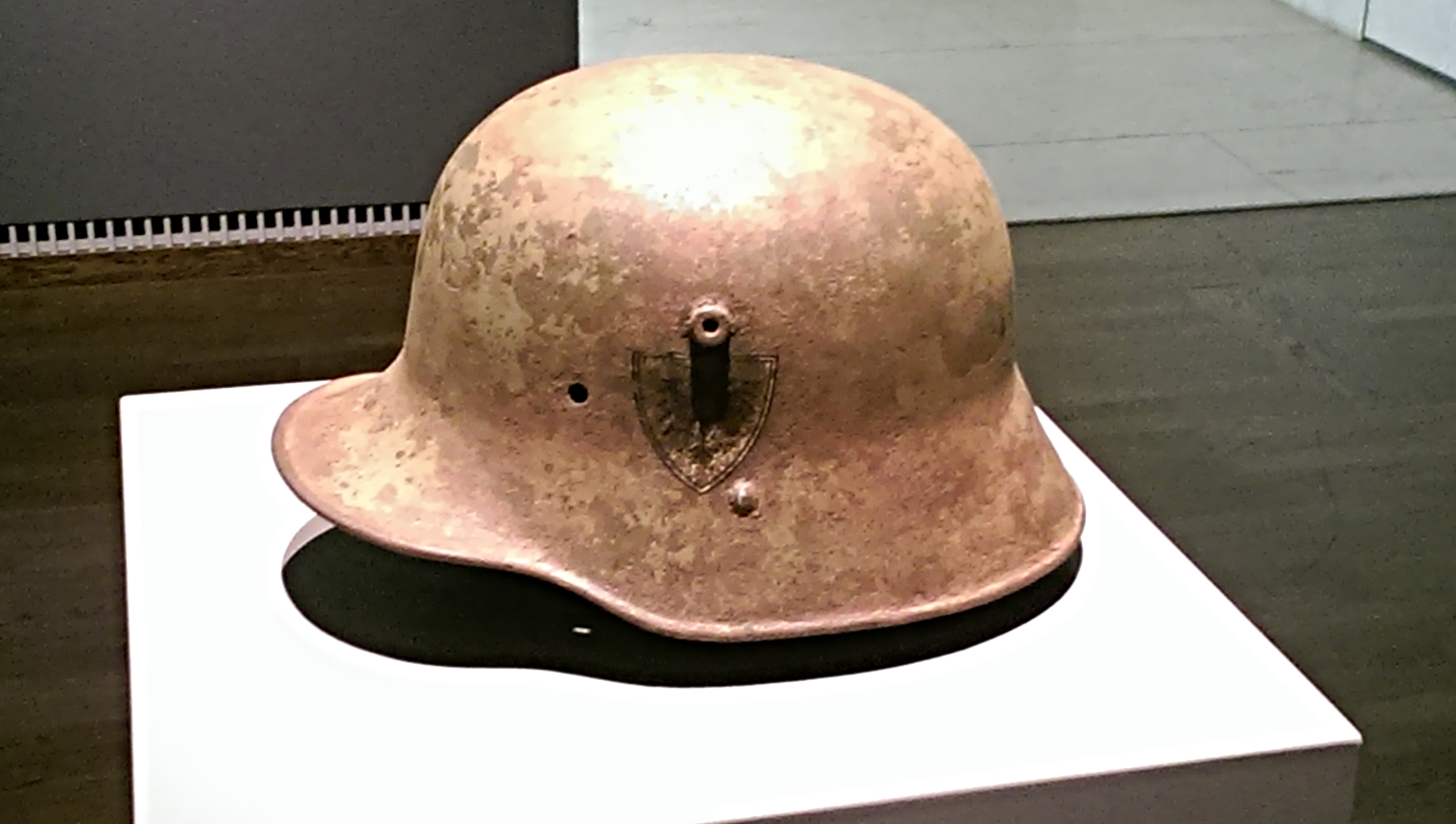 Spittelberg. Museumsplatz And yet there was art! Austria 1914–1918 exhibition Leopold Museum, Vienna. Austro-Hungarian helmet from World War I.